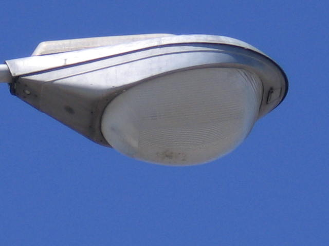 History of street lighting : General Electric M1000 (700–1000 watts) Finned version sans photocell